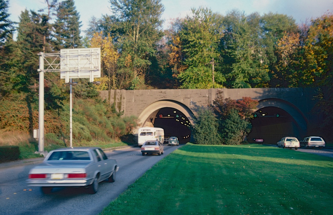 The former west portal of the twin-tunnel Mount Baker Ridge Tunnel on Interstate 90, in Seattle. During modification work beginning in 1989, this portal was permanently removed and the tunnel was effectively extended westwards by the construction of a new concrete "lid" over a nearly 2,000-foot stretch of I-90's older lanes, the lanes pictured here. (A new, parallel set of freeway lanes, using a new tunnel, opened just north of this location in 1989.) Until 1989, the lanes were reversible, and signals above each lane within the two portals show the direction of traffic at the time of the photo. This was an afternoon rush hour view, when three lanes were open for eastbound traffic (i.e., generally heading away from Seattle) and one lane for westbound traffic. A Metro Transit bus on route 220 is among the vehicles using the sole westbound lane in this view.